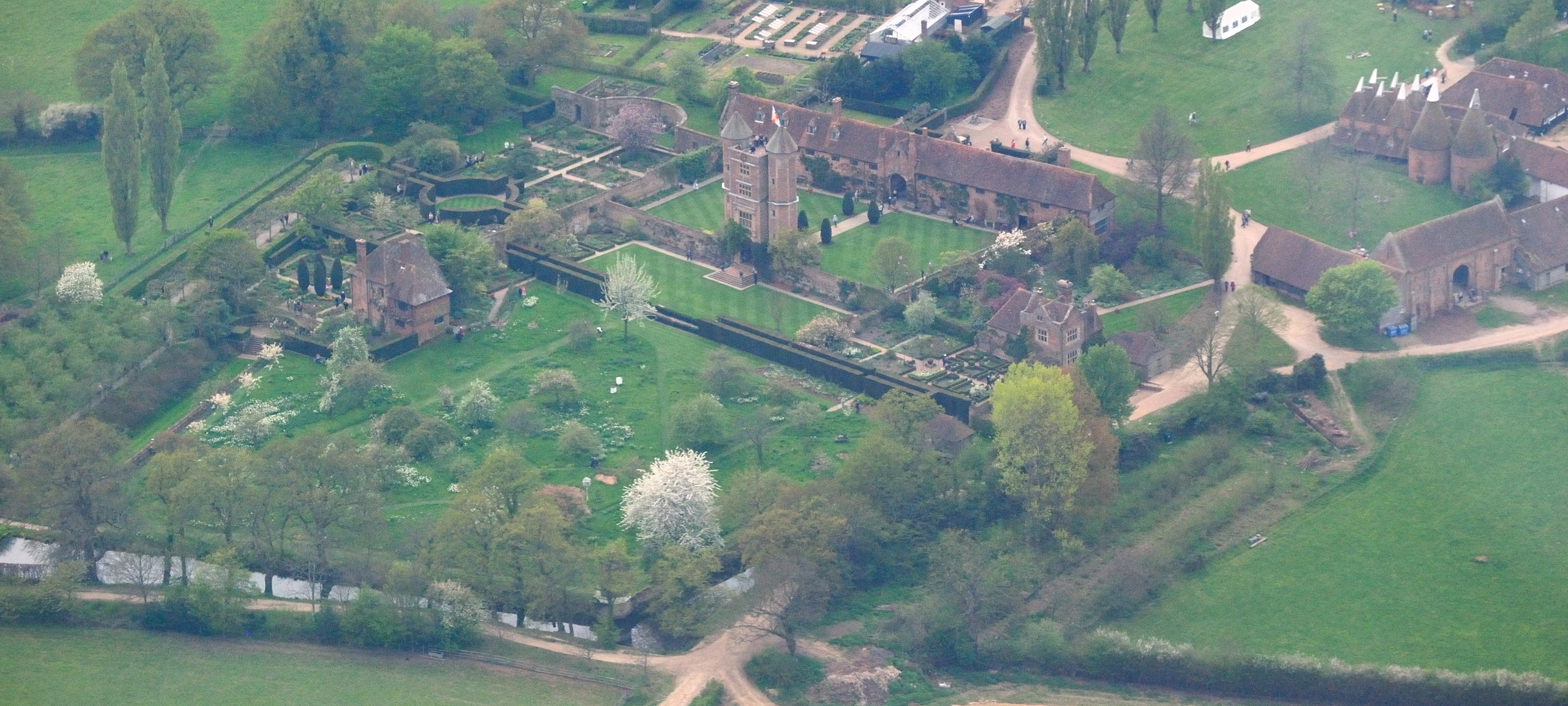 Aerial view of Sissinghurst Castle Garden, Kent, England. Vita's Tower is near the centre of the picture. Nikon D60 f=120mm f/7.1 at 1/800s ISO 800. Processed using Nikon ViewNX 1.5.2 and GIMP 2.6.6.